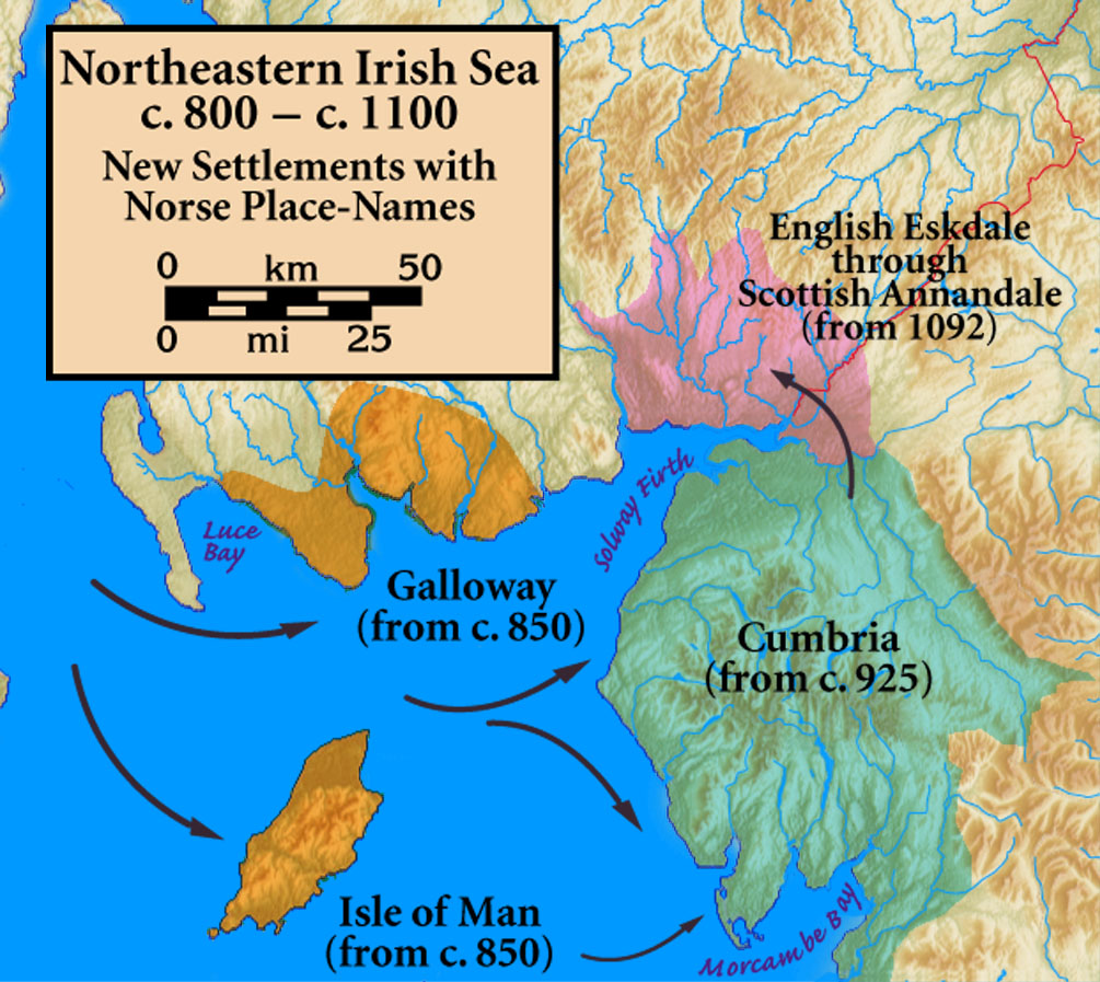 Distribution of Norse Placenames in Cumbria, Isle of Man, Dumfriesshire, and Galloway